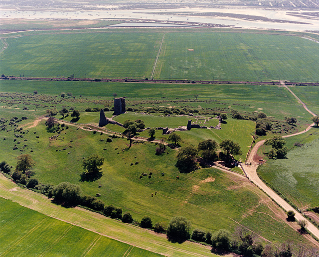 Aerial view of Hadleigh Castle and Country Park Hadleigh Castle is not actually in the country park (which is probably why they changed the name from 'Hadleigh Castle Country Park' to 'Hadleigh Country Park'). This view shows the remains of the castle on a mound overlooking the estuary. In its heyday, the castle would have been right next to the estuary. Today, the middle distance is occupied by Hadleigh Marsh. The area of this beyond the railway line (across the centre) is now used for growing vegetables. Beyond this, near the top centre, the triangular pool is at the western tip of Two-Tree Island. Since this photo was taken, this pool has been colonised by Avocets, and these have recently bred successfully there.